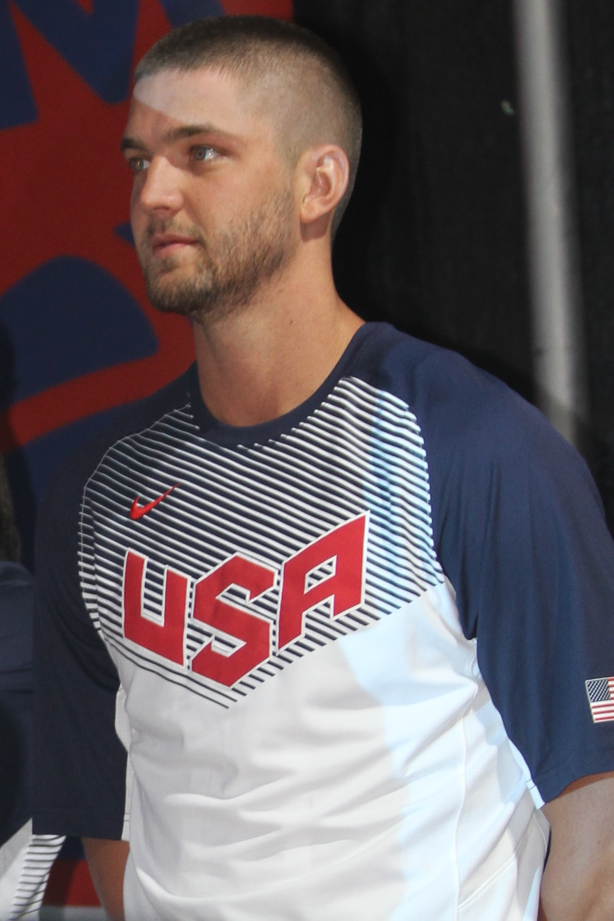 Chandler Parsons at 2014 World Basketball Festival at 63rd Street Beach in Chicago